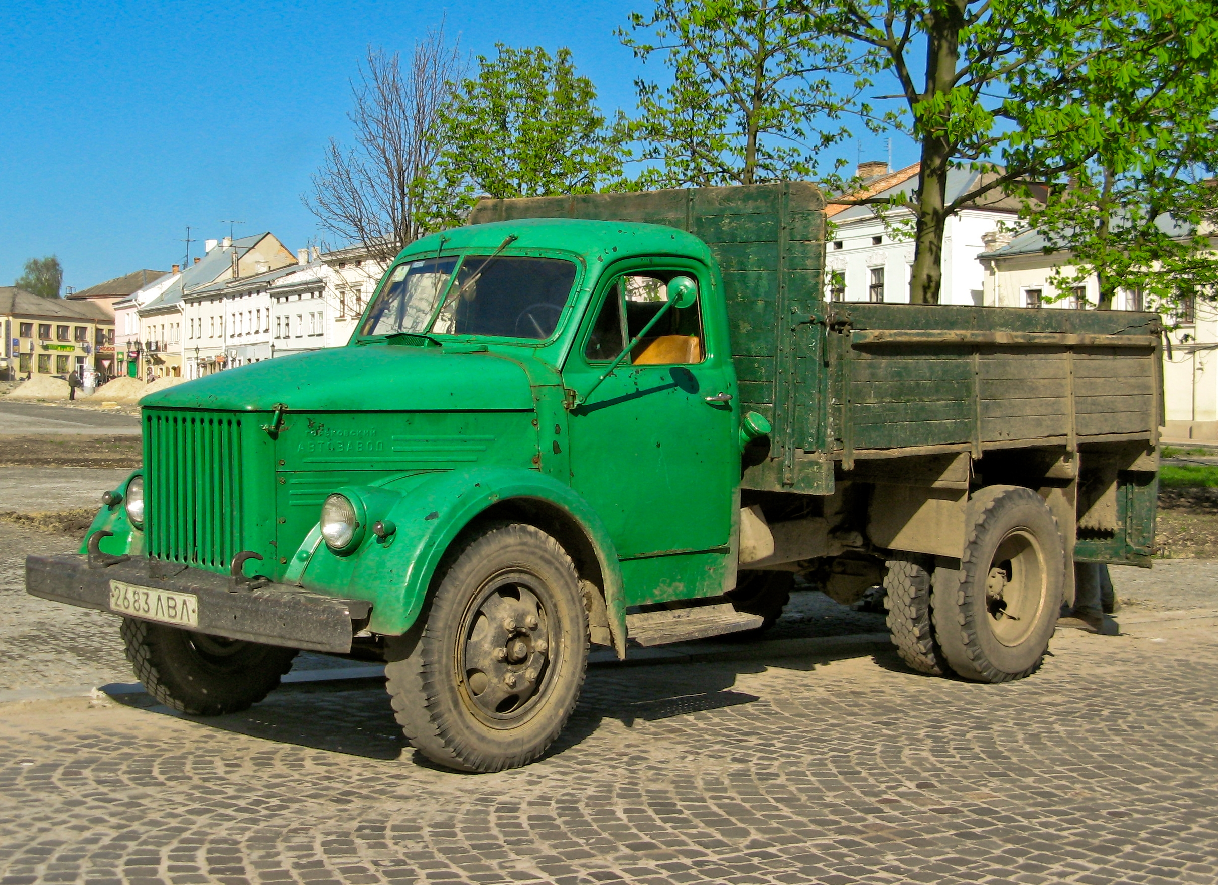 a GAZ-51 truck in Poland